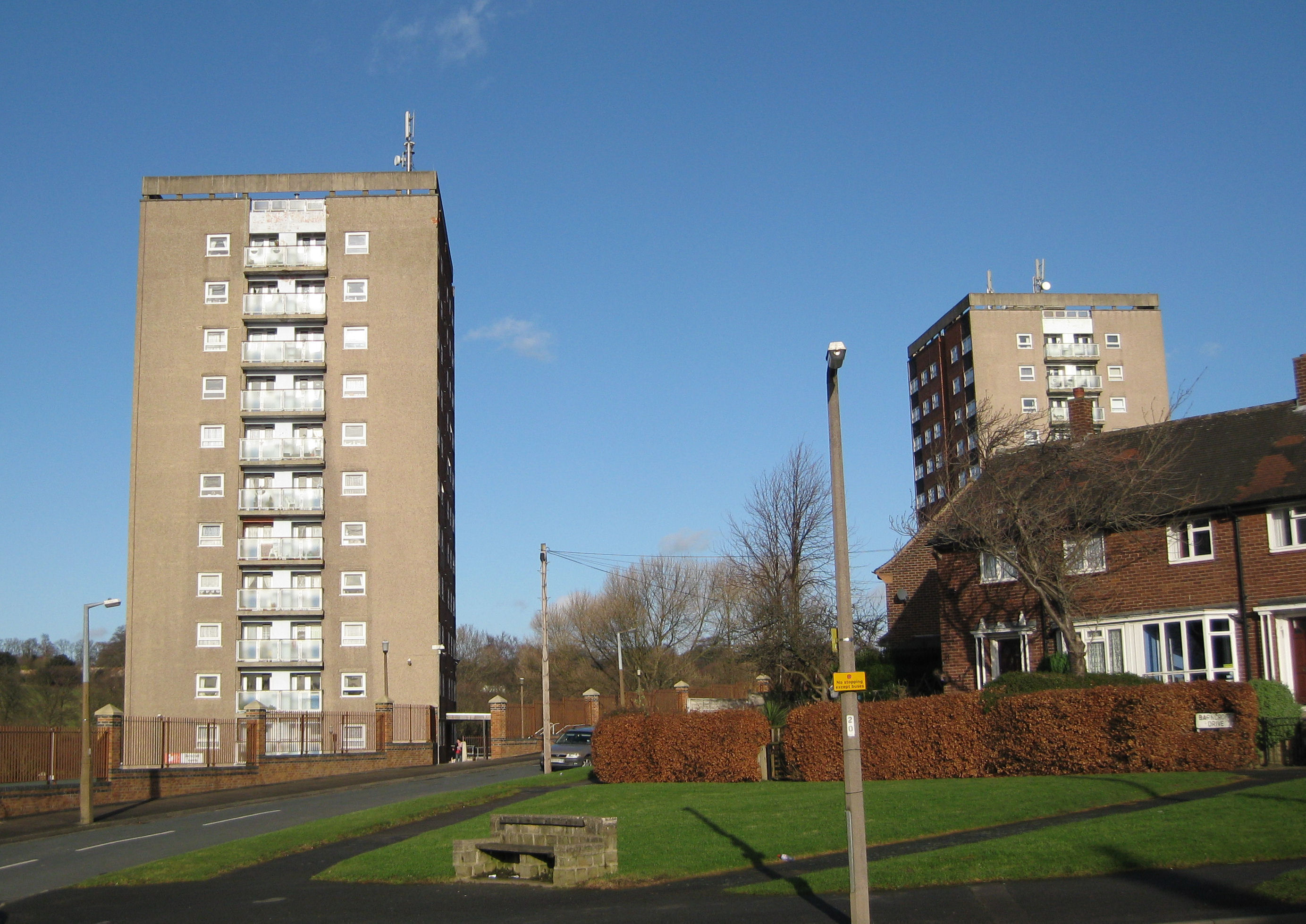 Bancroft Drive, Seacroft, Leeds LS14. High Rise flats and brick semi-detached house